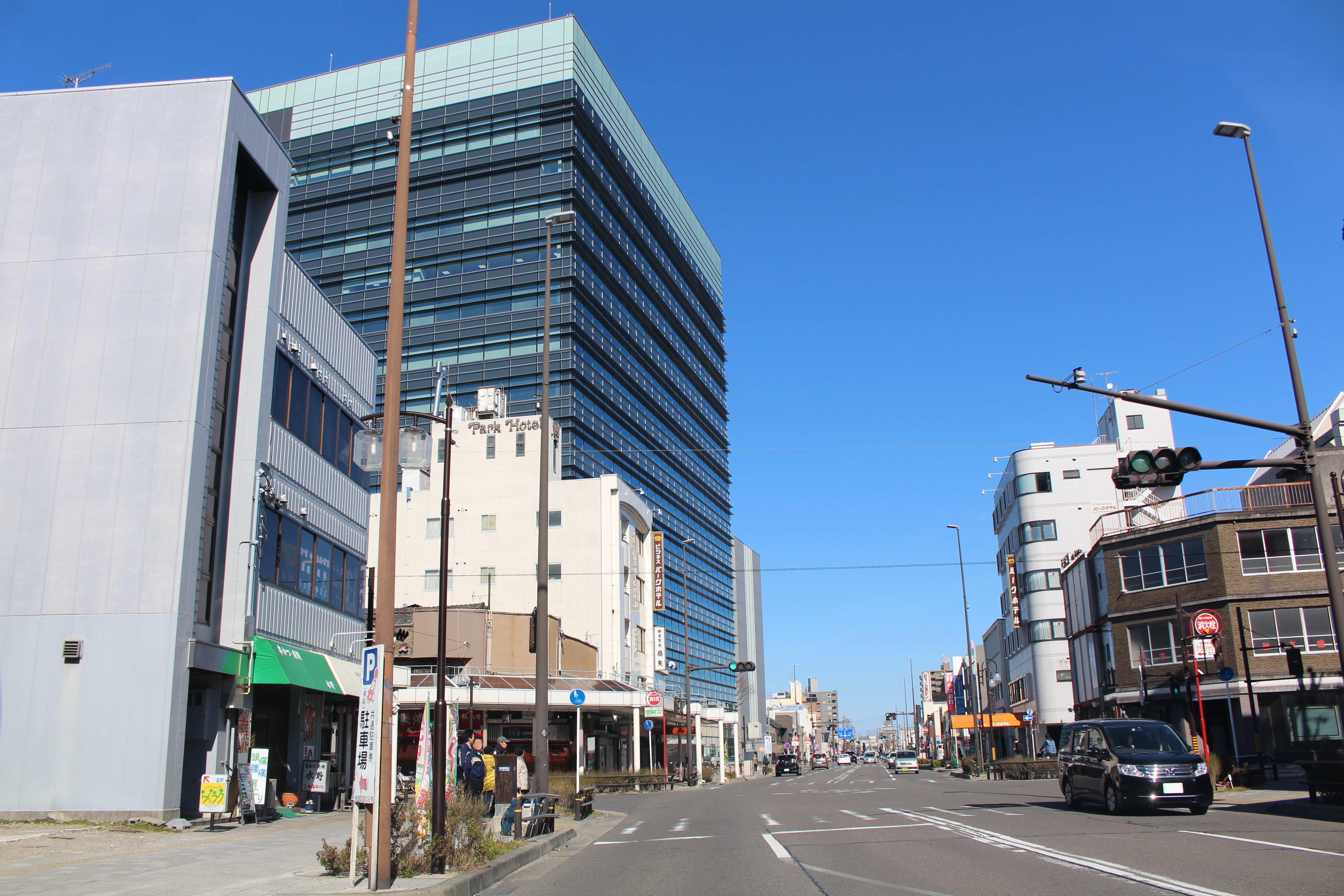 Ichinomiya City Hall in Aichi prefecture, Japan.